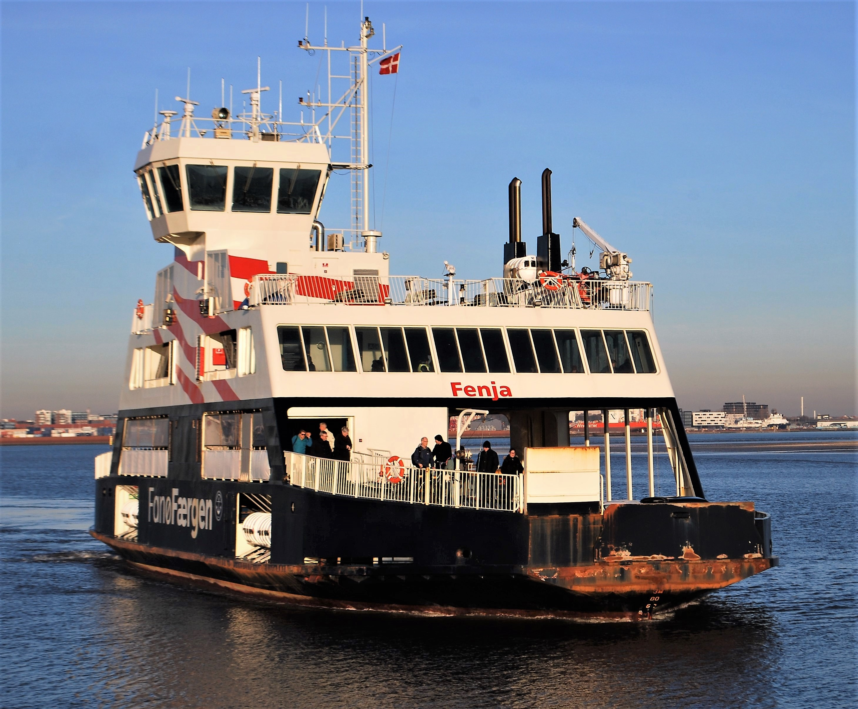 The ferry Fenja, Fanø-Esbjerg, Denmark